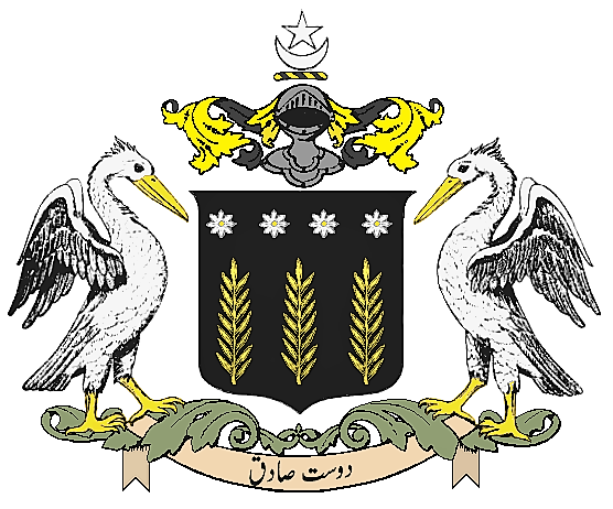 Coat of arms of Bahawalpur State. Motto: Dost Sadiq This Pakistani work is now in the public domain because its term of copyright has expired according to the Copyright Ordinance, 1962 as amended by Copyright (Amendment) Ordinance, 2000 (details).The works meets one of the following criteria: it is a photograph, a cinematographic work or a sound recording and at least 50 years have passed since the end of the year of its publication (or since the year of creation for photographs from before independence in 1947, as per the Copyright Act 1911). it is a governmental or anonymous work and at least 50 years have passed since the end of the year of its publication. To the uploader: Please provide all relevant authorship and publication details. This image shows a flag, a coat of arms, a seal or some other official insignia. The use of such symbols is restricted in many countries. These restrictions are independent of the copyright status.